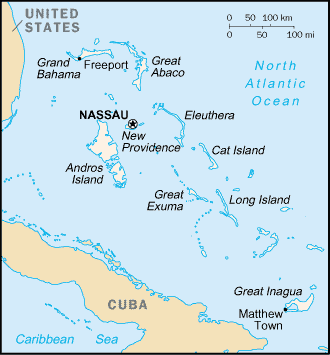 A map of the Bahamas, showing major cities.